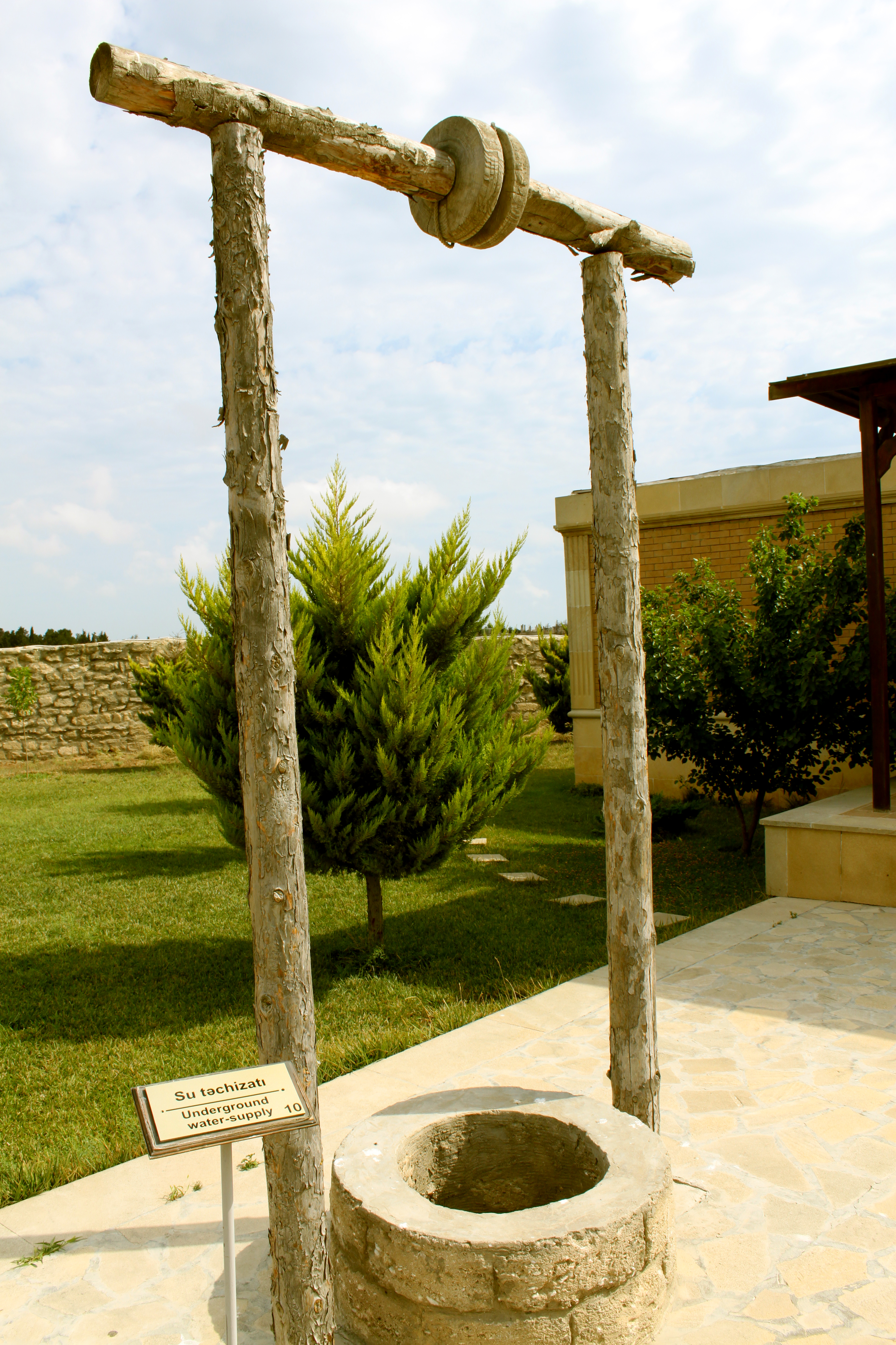 Medieval water well